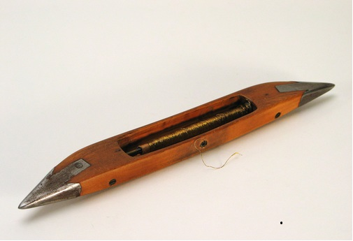 Weaver shuttle from the Swedish damask weaver Carl Widlund (1887-1968), used during the years 1910-1968.